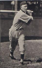 A baseball card of Ray Jacobs from the 1926 Zeenut set.